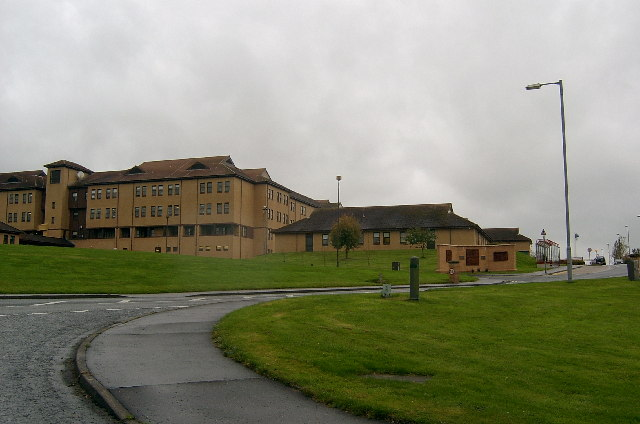 Ayr Hospital. One of three hospitals in a small area of Ayrshire. This is the main one with the Accident & Emergency Dpartment. A very busy hospital.